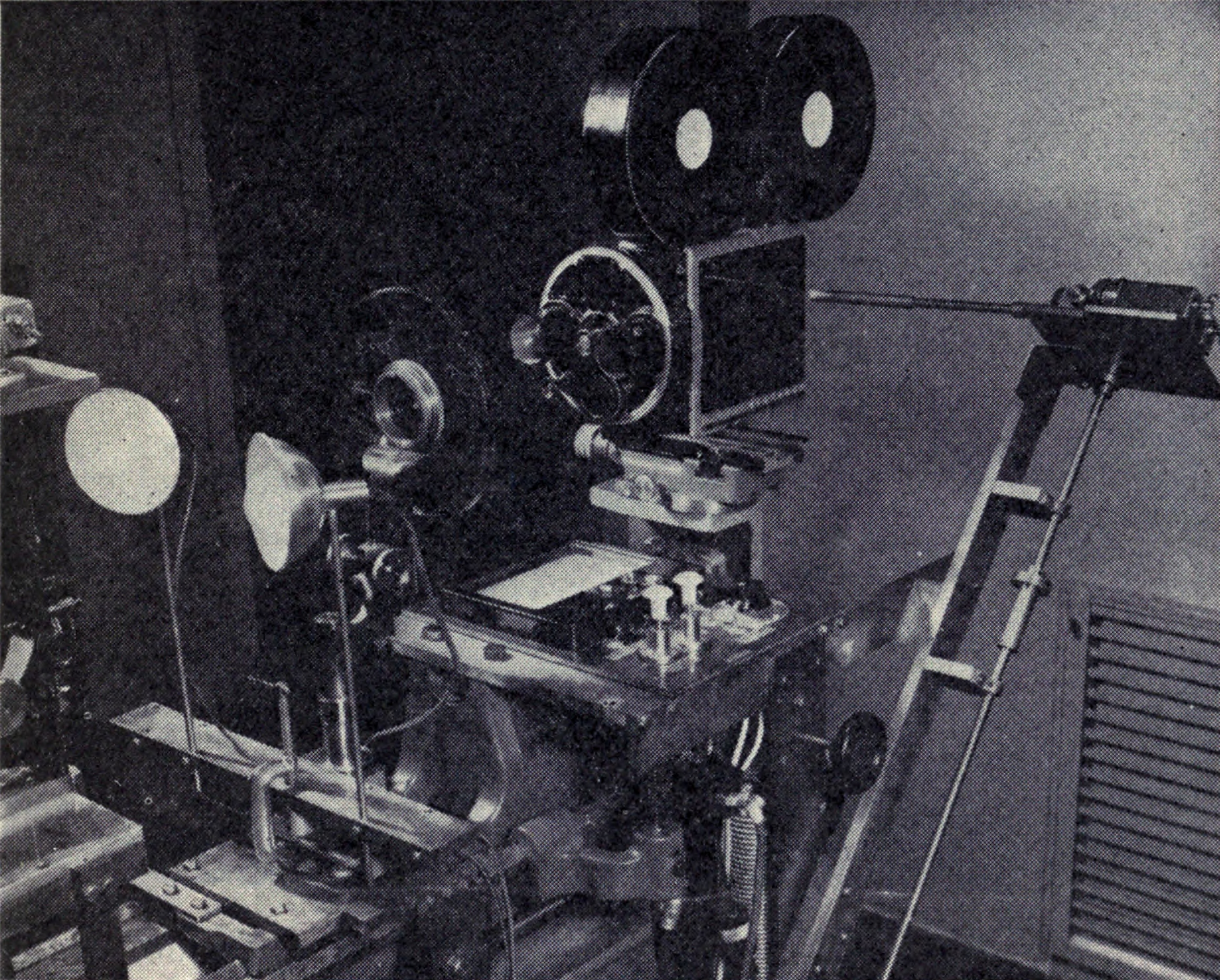 Optical printer by Carl Louis Gregory, close view with reflectors for illumination, disc with copying lens, camera without lens, March 1943